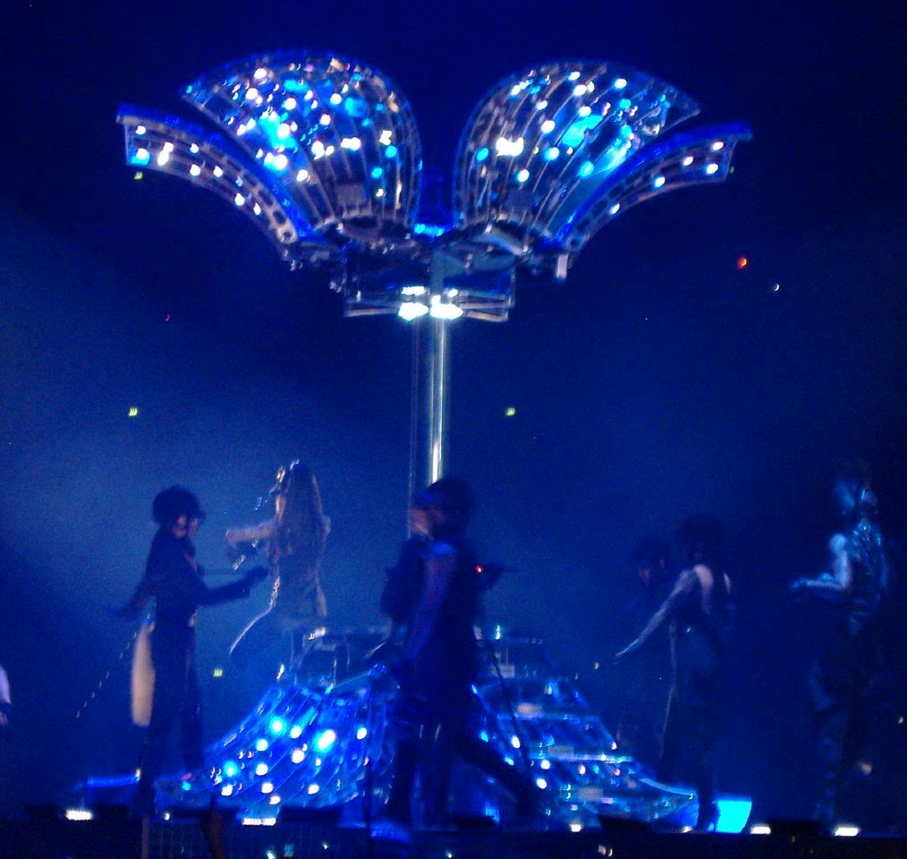 Madonna performing Future Lovers on the Confessions Tour. She is getting out from a huge discoball